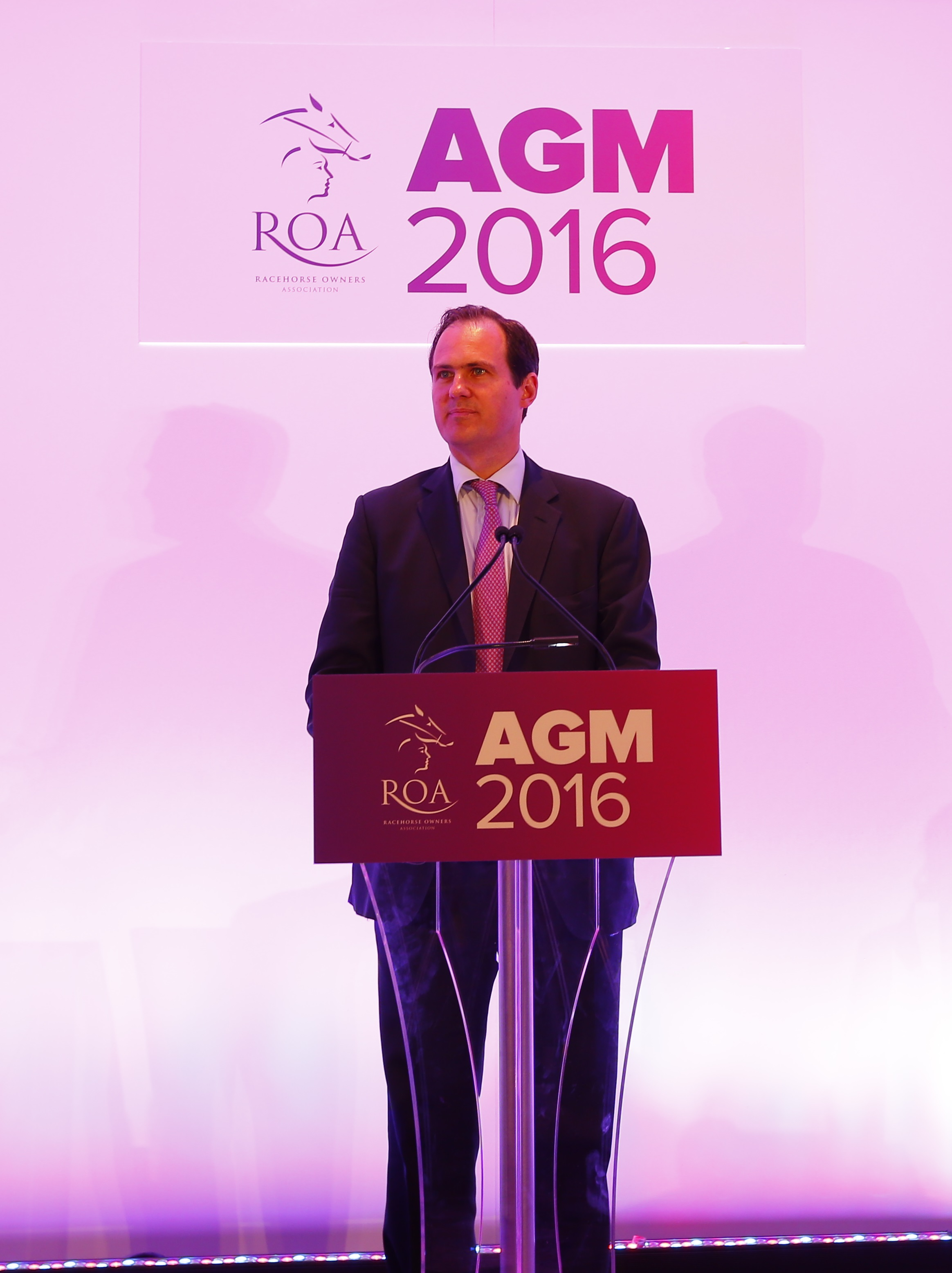 Chief Executive, Charlie Liverton